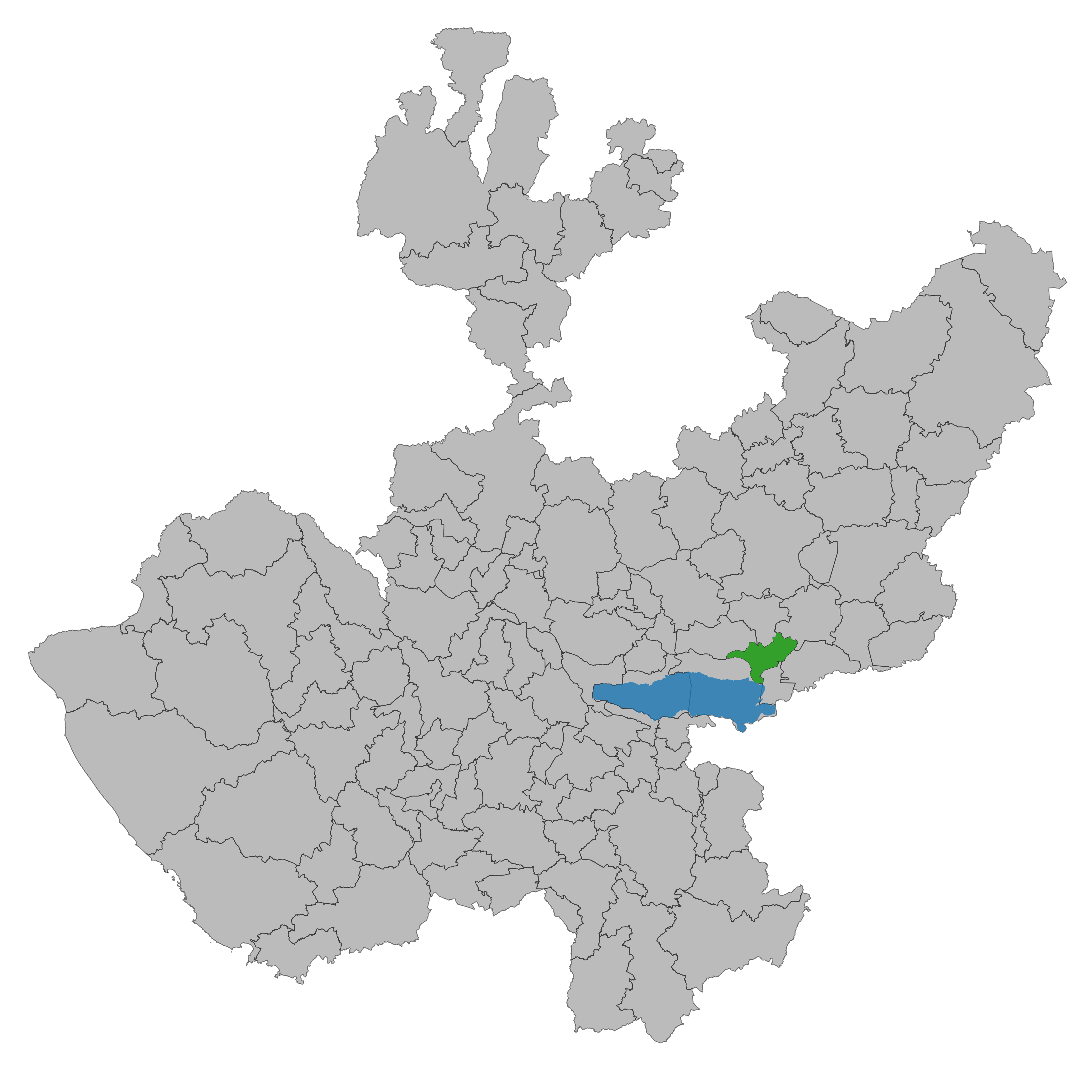 Municipality of Jalisco. Prepared with the software QGIS version 2.8.2 Wien & with information of SCINCE 2010 version 05/2013